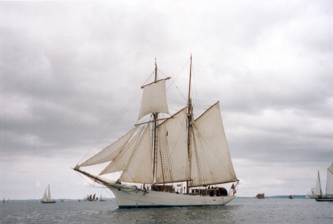 The schooner Belle-Poule of the French Navy.